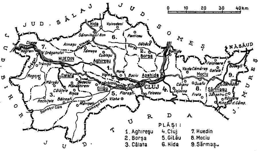 Map of Cluj interwar county, Kingdom of Romania (1938).